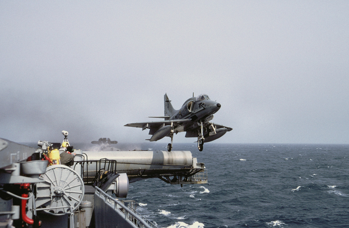 Leaving the ship in a hurry.